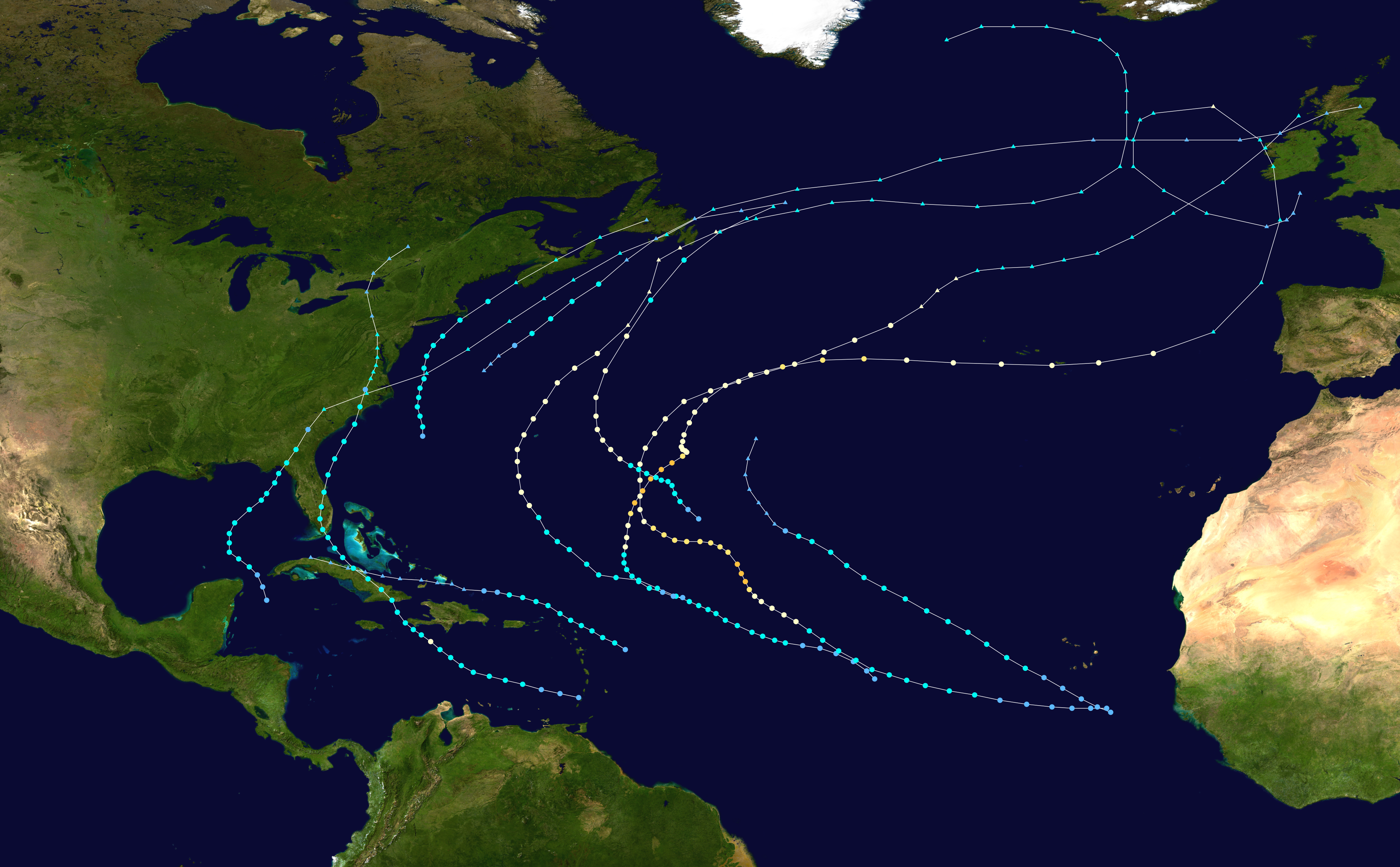 This map shows the tracks of all tropical cyclones in the 2006 Atlantic hurricane season. The points show the location of each storm at 6-hour intervals. The colour represents the storm's maximum sustained wind speeds as classified in the Saffir-Simpson Hurricane Scale (see below), and the shape of the data points represent the type of the storm. Saffir–Simpson scale Tropical depression≤38 mph≤62 km/h Category 3111–129 mph178–208 km/h Tropical storm39–73 mph63–118 km/h Category 4130–156 mph209–251 km/h Category 174–95 mph119–153 km/h Category 5≥157 mph≥252 km/h Category 296–110 mph154–177 km/h Unknown Storm type Tropical cyclone Subtropical cyclone Extratropical cyclone / Remnant low / Tropical disturbance / Monsoon depression